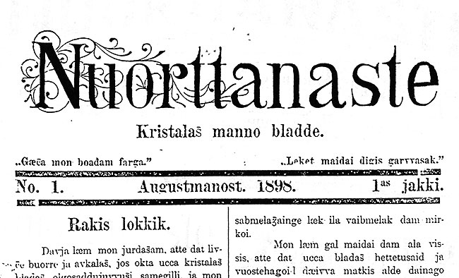 Front cover of 1898 magazine